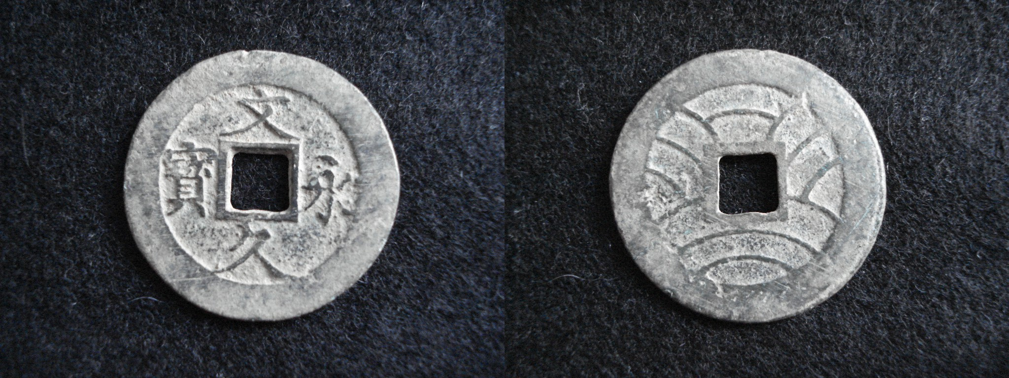 Bunkyu-Eiho. Japanese old coin that was made in Edo period (1863 - 1867). 4mon.